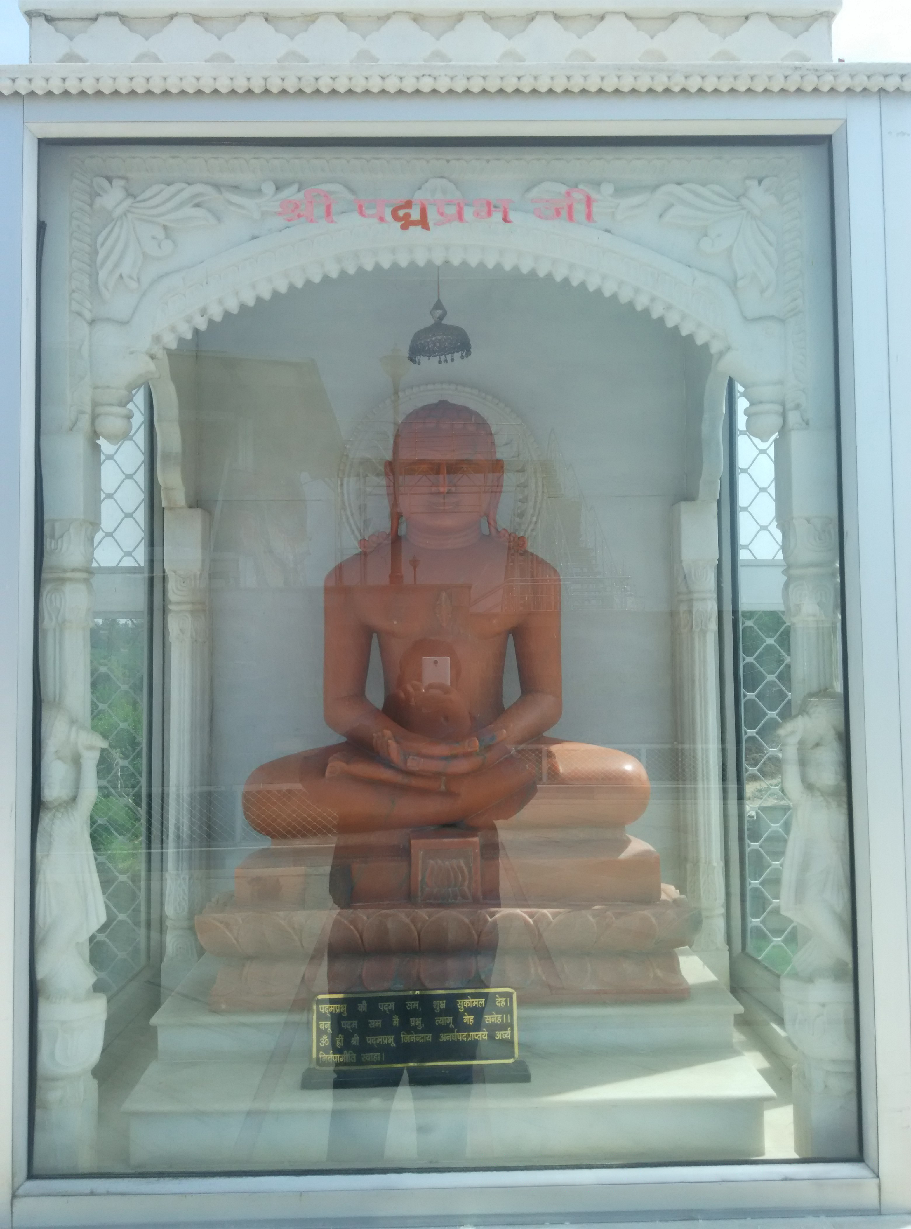 Padmaprabha